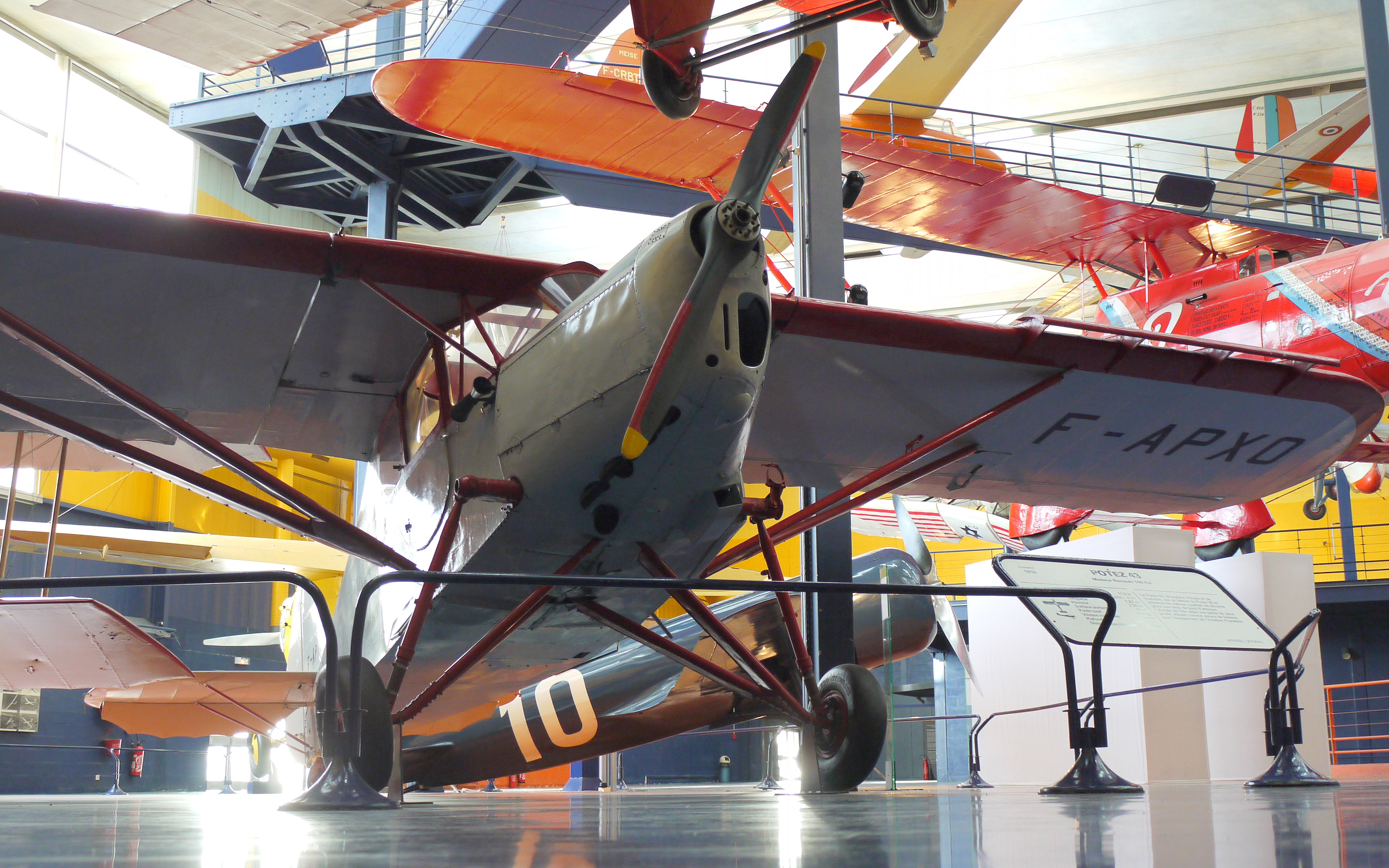 Light utility and sports aircraft Potez 43 (1932), Museum of Air and Space Paris, Le Bourget (France)